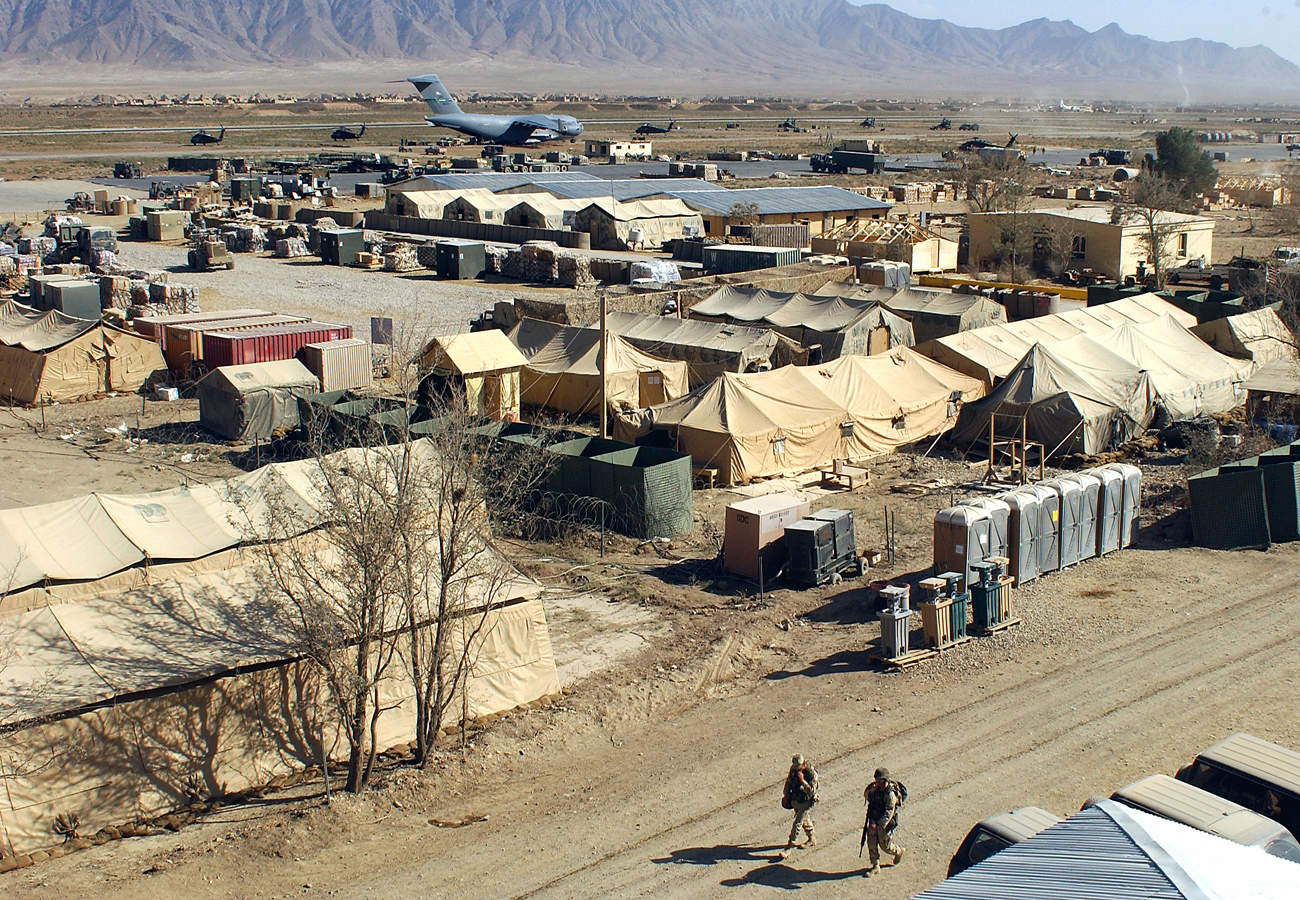 The military camp at Bagram, Afghanistan is home to U.S. Airmen, Soldiers, Marines and Sailors supporting Operation Enduring Freedom. Service members from countries like Germany, England, Korea, Australia and Canada also call the camp home.